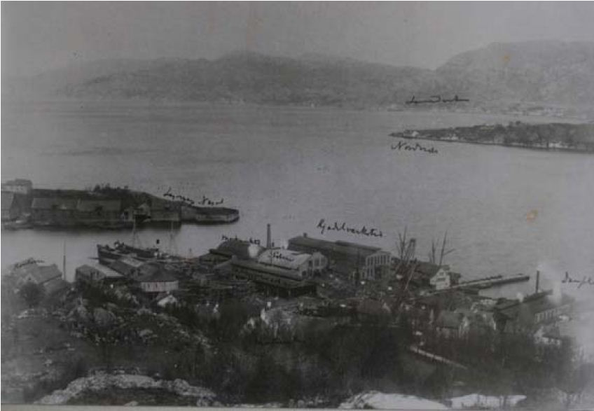 Martens, Olsen & Co, shipyard at Laksevåg in Bergen. Photo ca. 1885. From Sjøfartsmuseet.